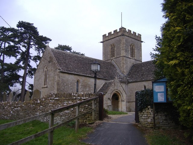 St. Mary's church at Mesey Hampton, Gloucestershire, England